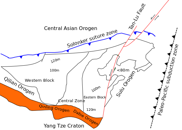 This shows important tectonic elements around the North China Craton in Phanerozoic.